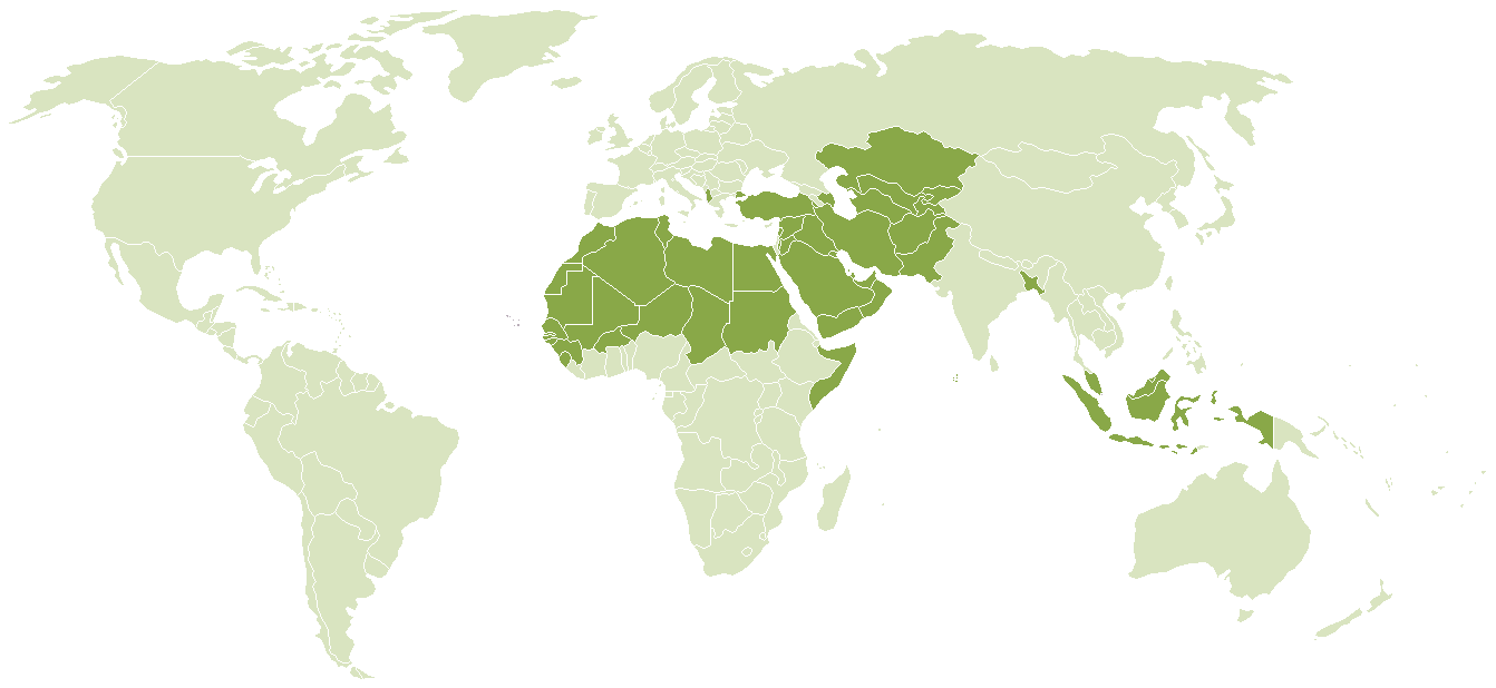 The Muslim world - Nations with a Muslim majority appear in dark green.